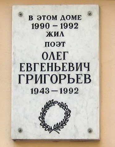 The poet Oleg Grigoriev Memorial Plaque on the wall of Art-Center 'Pushkinskaya, 10' in Saint Petersburg